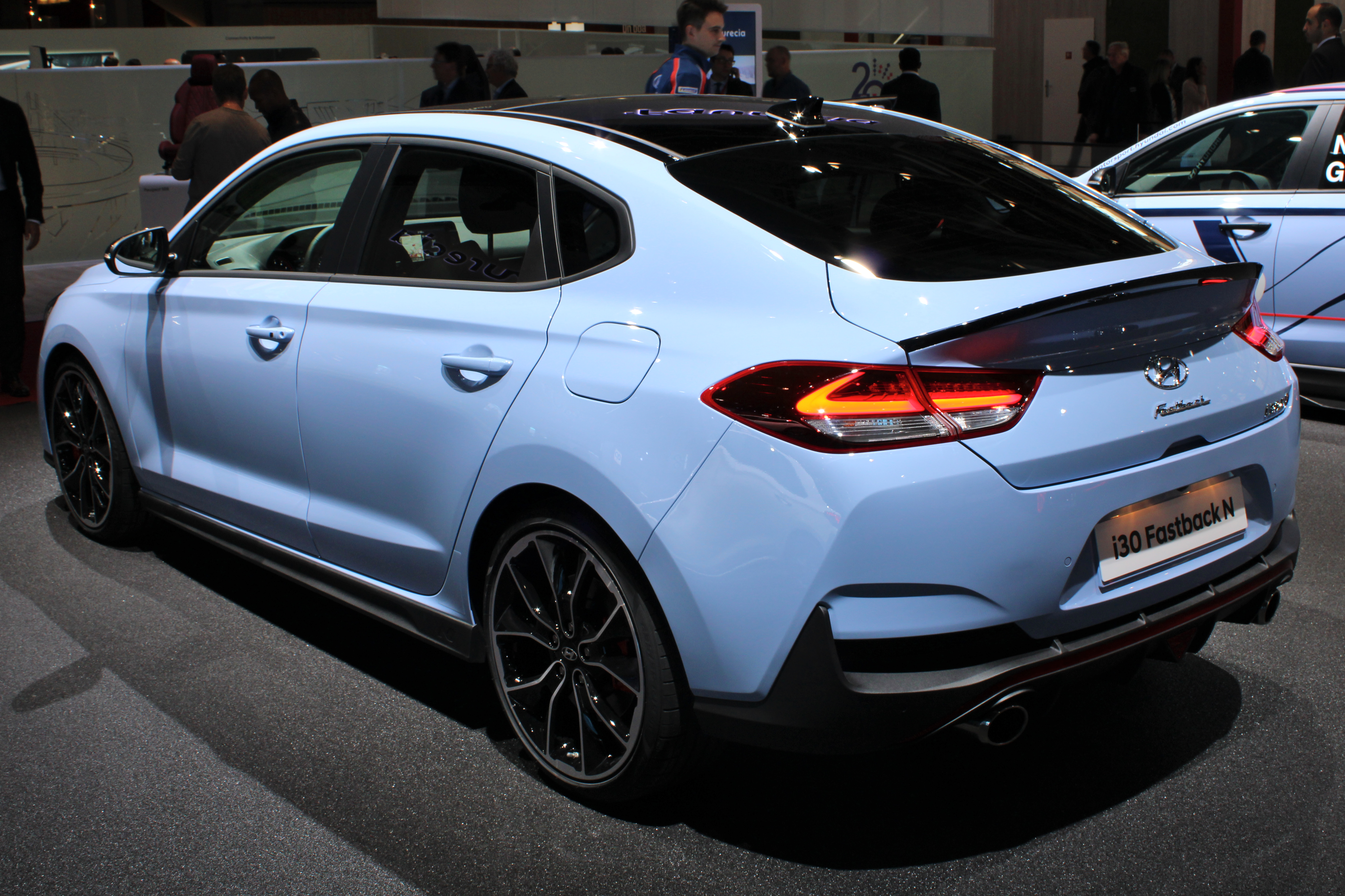 Hyundai i30 Fastback N at Paris Motor Show